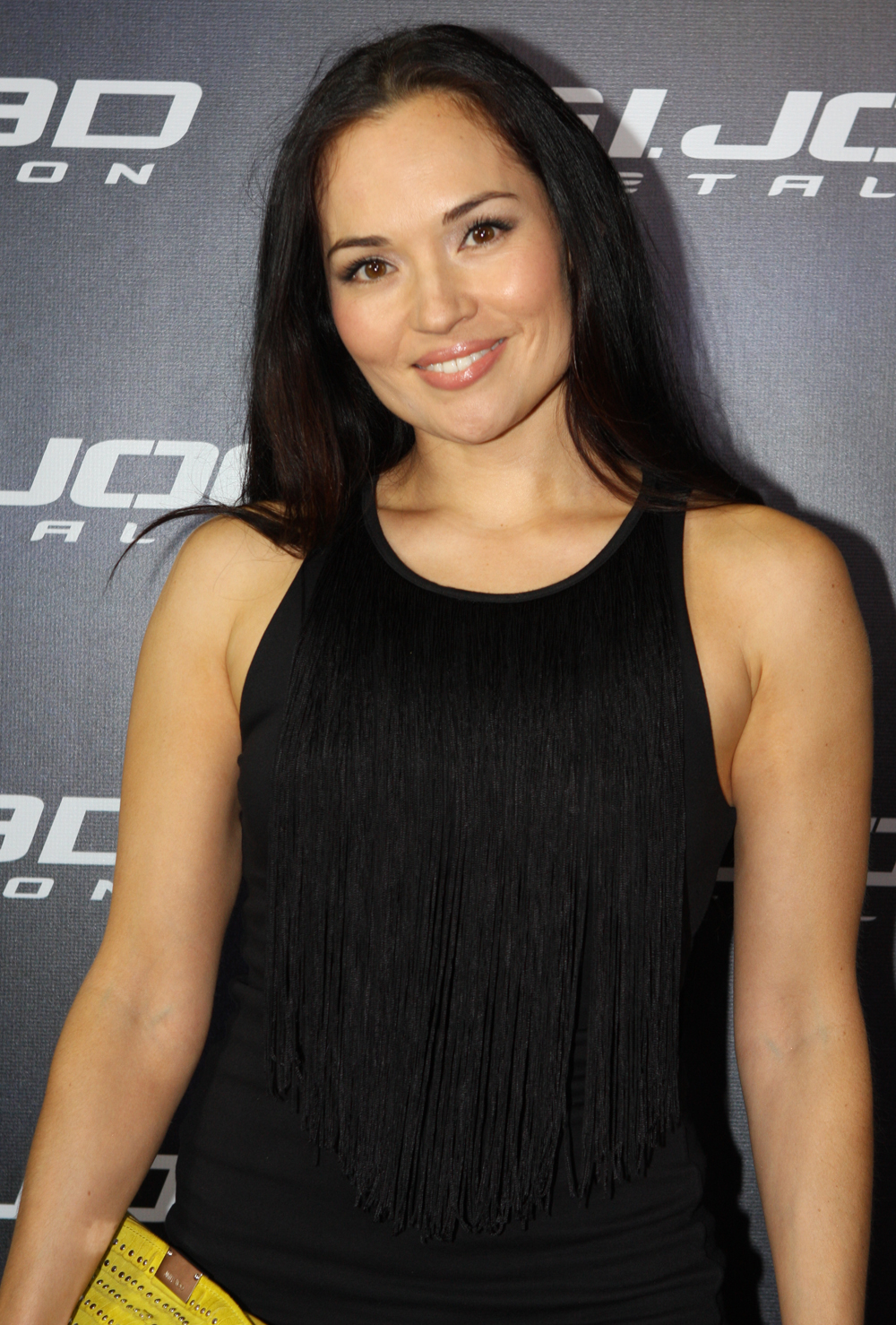 Tasneem Roc at the G.I. Joe: Retaliation Australian film premiere, Event Cinemas, Sydney, Australia - 14th March 2013